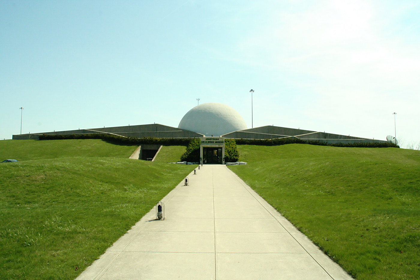 Neil Armstrong Air and Space Museum in Wapakoneta, Ohio. Photo shot by Derek Jensen (Tysto), 2006-04-10